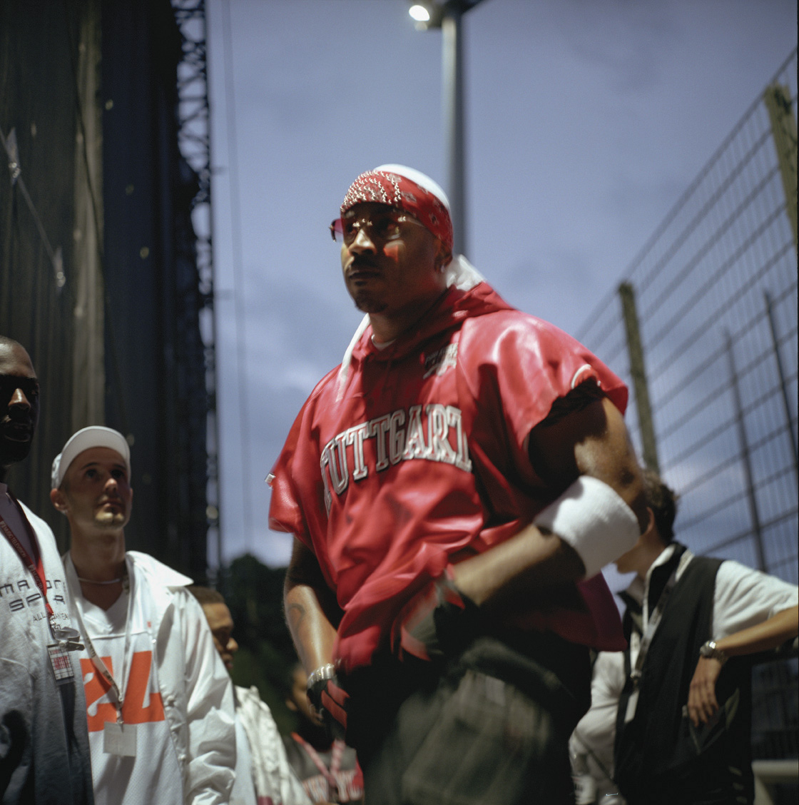 Stuttgart/Germany 2001